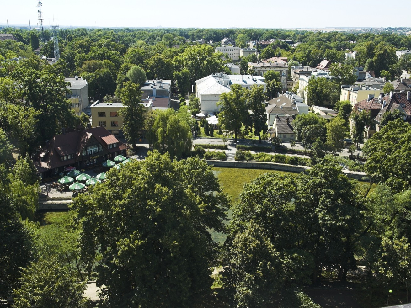 The view of Opole-Pasieka and the Castle Pond